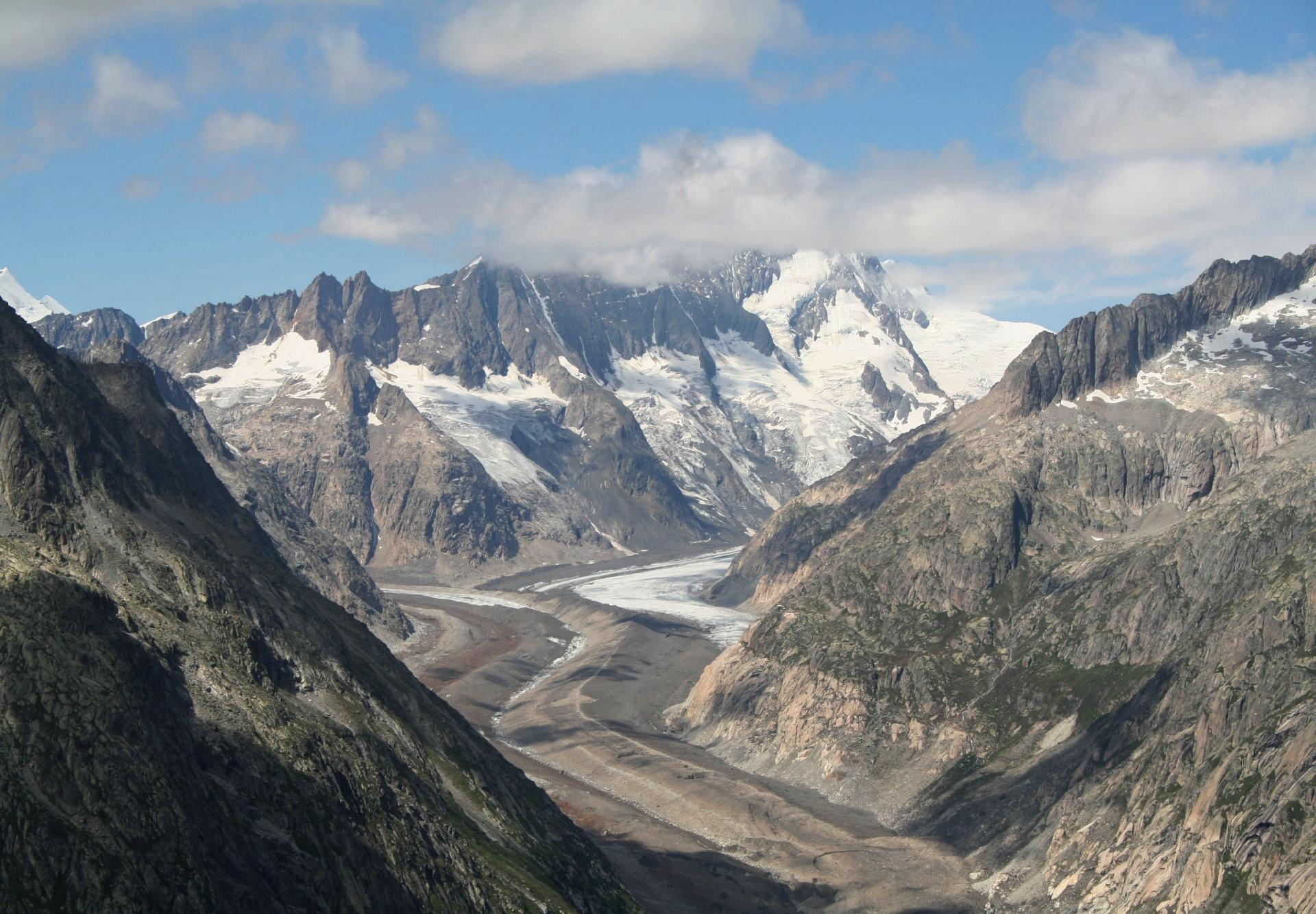 Unteraar glacier (convergence of the Finsteraargletscher and Lauteraargletscher), Bernese Alps